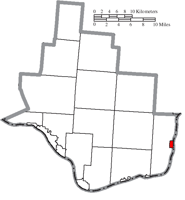 Map of the municipal and township boundaries of Lawrence County, Ohio, United States, as of the 2000 census, with the location of the village of Athalia highlighted. Township borders are shown only in unincorporated areas in order to differentiate incorporated and unincorporated areas more clearly.